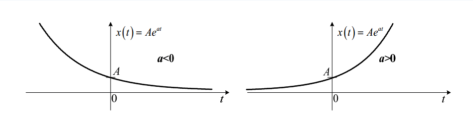 Figura 4. Eksponenciali real